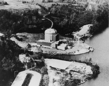 Peach Bottom Nuclear Generating Station. Black and white Aerial View.